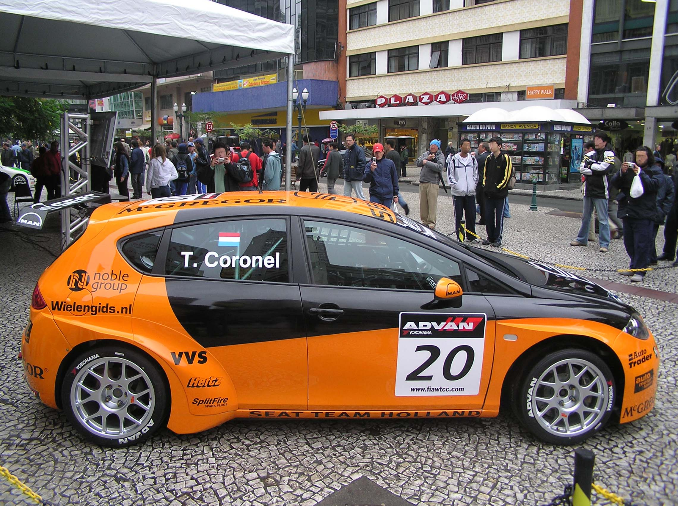 World Touring Car Championship 2006: SEAT León (GR Asia)